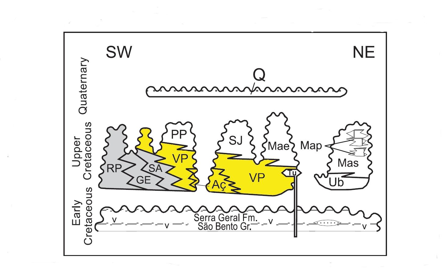 Chart showing the stratigraphic relationships in the Parana Basin. Redrawn after a diagram in LUIZ A. FERNANDES, PAULO C. F. GIANNINI and ANA MARIA GÓES: Araçatuba Formation: palustrine deposits from the initial sedimentation phase of the Bauru Basin. Anais da Academia Brasileira de Ciências (2003) 75(2): 173-187